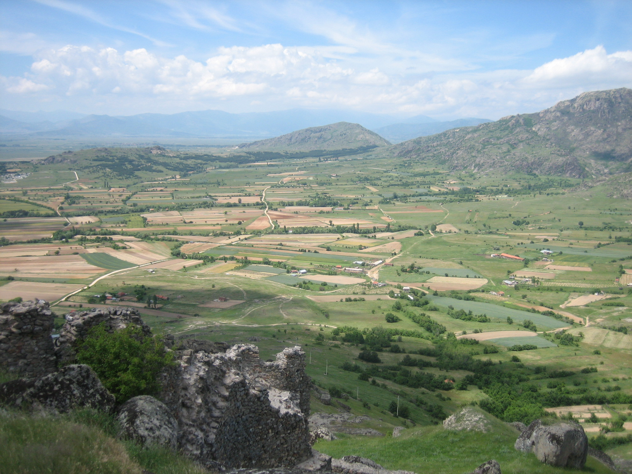 Markos Towers in Prilep